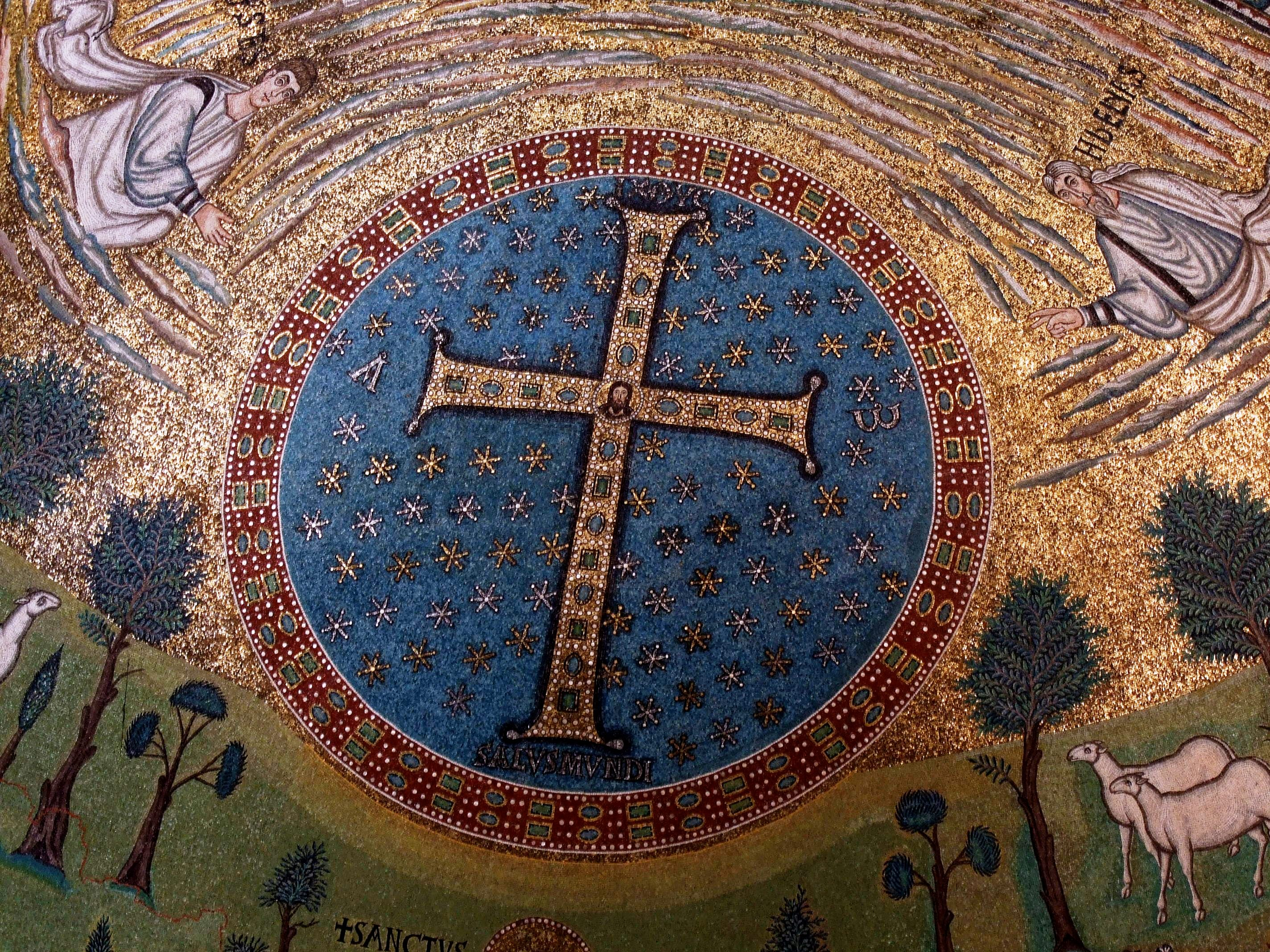 Cross. Detail from the 6th century Byzantine mosaic in the apse of the basilica of Sant'Apollinare in Classe (Ravenna, Italy)